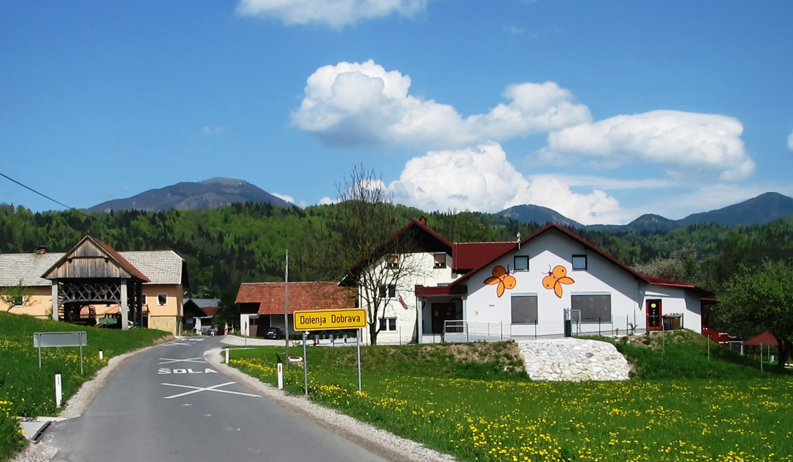 The settlement of Dolenja Dobrava in the Municipality of Gorenja Vas–Poljane, Slovenia